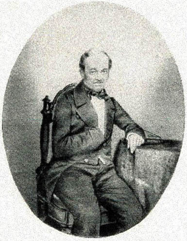 Karl Thomas Mozart. Daguerreotypi